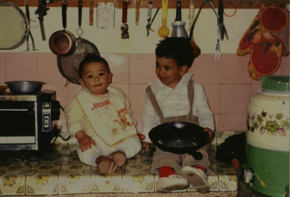 Photo of Omar Khadr, copyright released into the public domain by the Khadr family in Toronto.